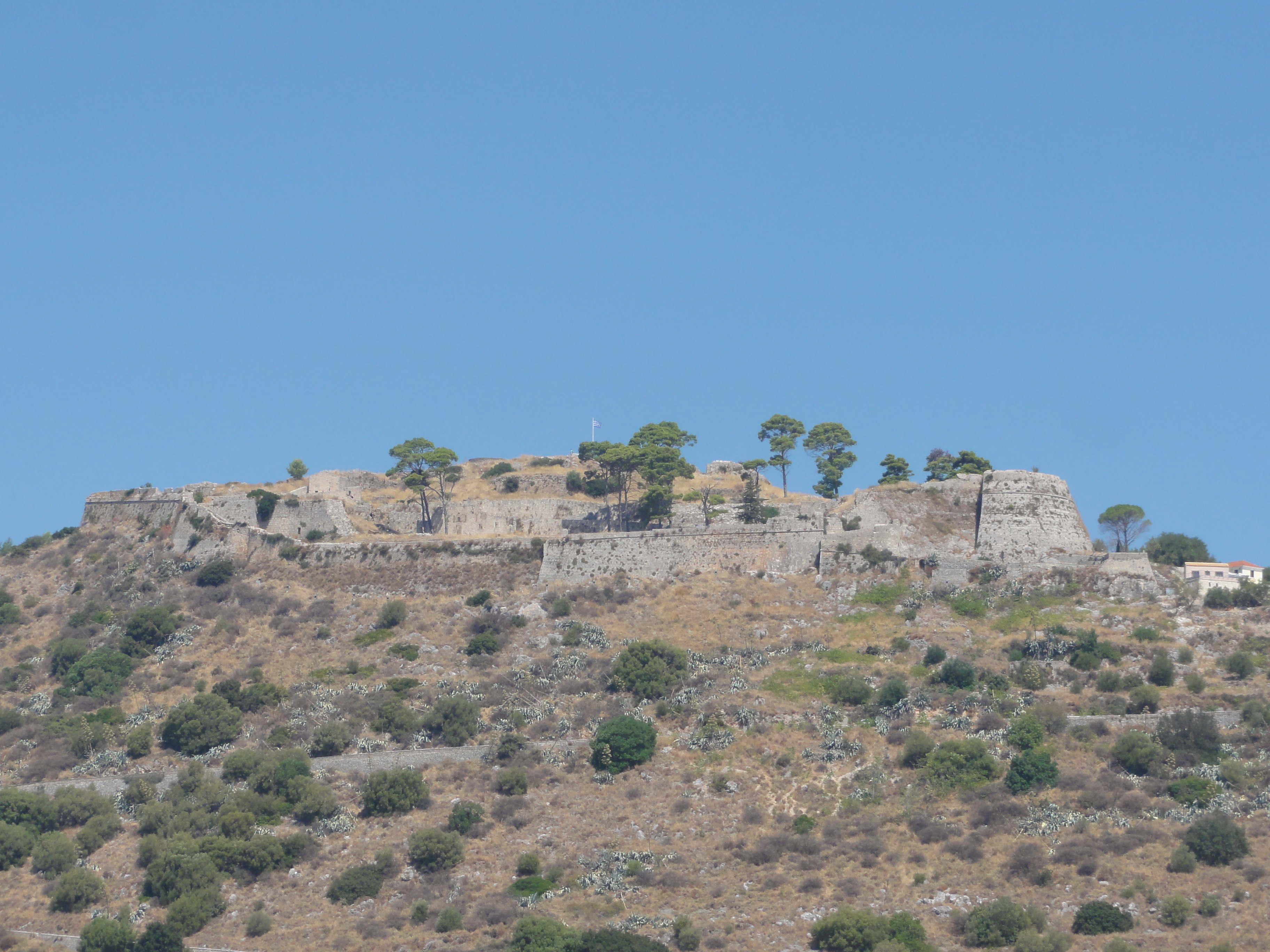 Photograph taken in Kefalonia.